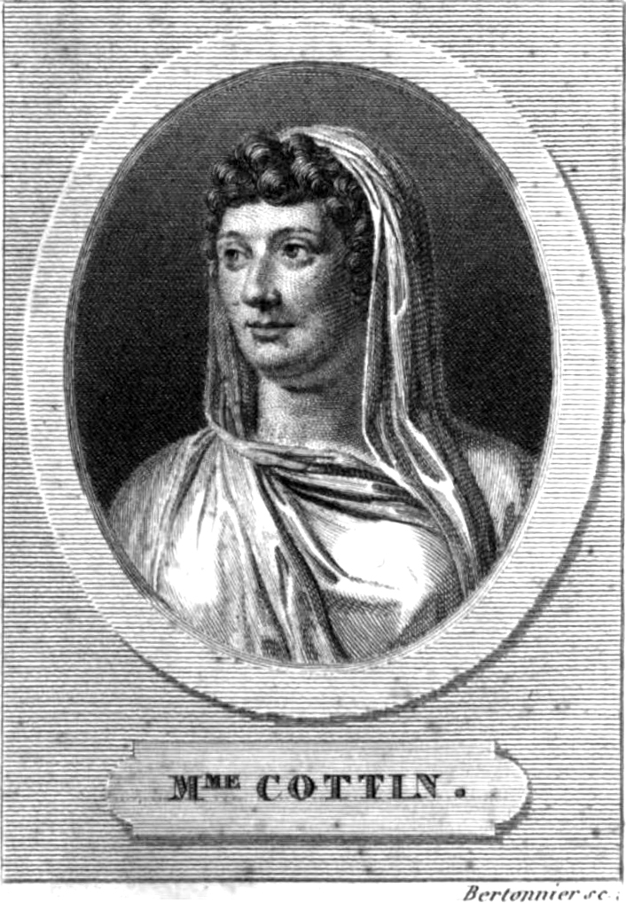 Sophie Ristaud Cottin (1773-1807), French writer